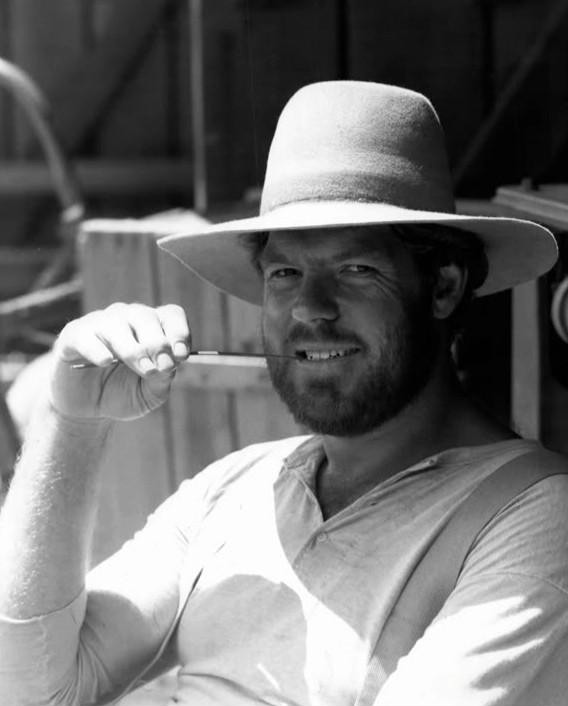 Photo of Merlin Olsen as Jonathan Garvey from the television program Little House on the Prairie.